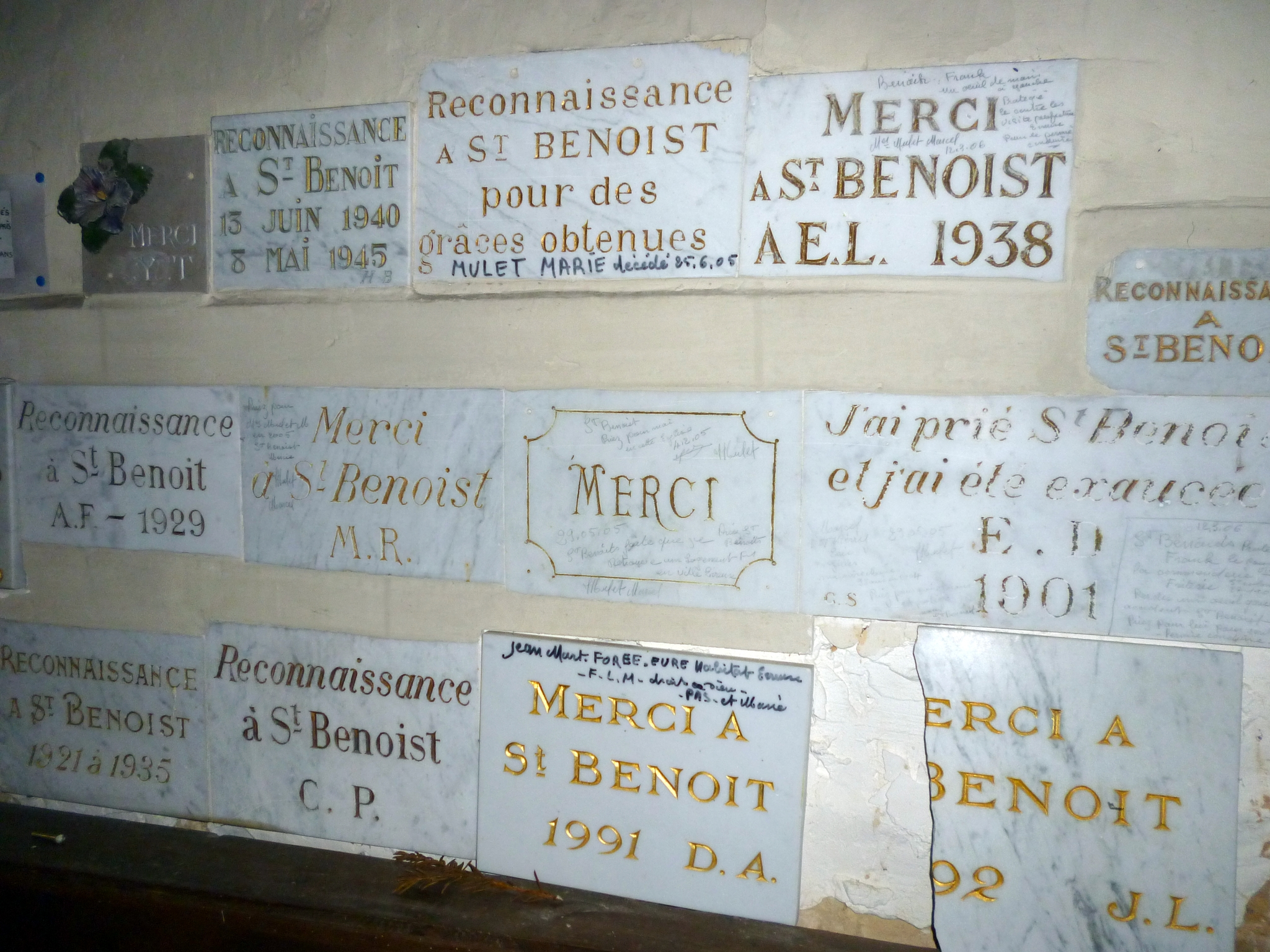 Ex-voto tablets for Benedict of Nursia in the church Saint-Benoît of Saint-Benoît-des-Ombres (Eure, France). The pilgrimage site is still active.